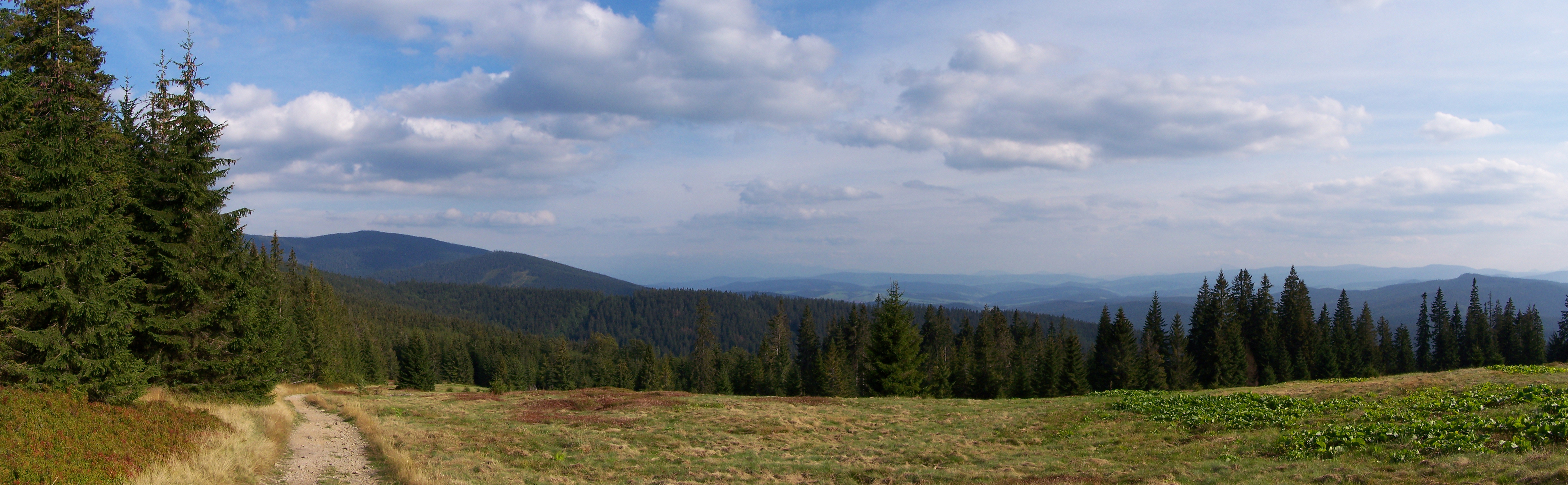 View from the Rysianka on the Pilsko.